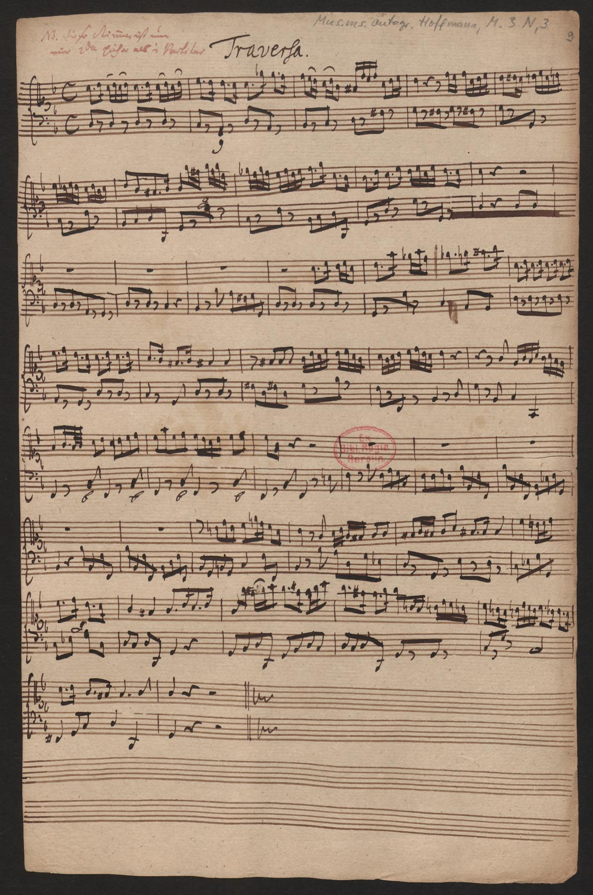 Traversa part of Melchior Hoffmann (composer)'s 1707 Magnificat in A minor (previously spuriously attributed to Bach, BWV Anh. 21, and Telemann, TWV 1:1748). The young Gottfried Heinrich Stölzel is the likely scribe of this manuscript.[1]